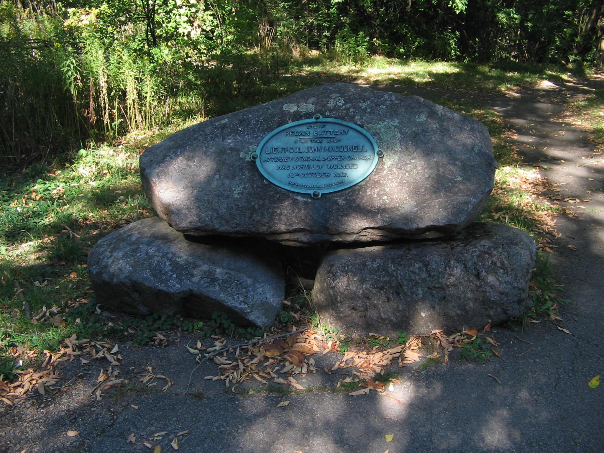 Photo of stones and plaque at the Redan Battery marking approximate location of John Macdonell's mortal wounding during the Battle of Queenston Heights, 13 October, 1812.